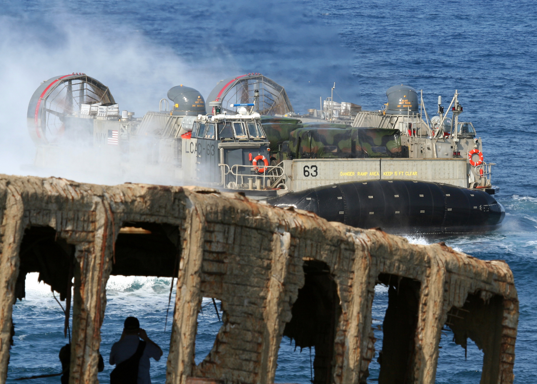 IWO JIMA, Japan (March 13, 2007) - Landing Craft Air Cushion (LCAC) 63, assigned to dock landing ship USS Harpers Ferry (LSD 49), transits Sailors and Marines to the historic location of the Battle of Iwo Jima. While visiting the island, Sailors learned about the history of the World War II battle through war remnants and used the time on the island to honor fallen service members of both forces. Harpers Ferry, with embarked 1st Marine Aircraft Wing (MAW), is here to support the 62nd Commemoration of the Battle of Iwo Jima, March 14, 2007. U.S. Navy photo by Mass Communication Specialist Seaman Aaron L. Stevens (RELEASED)